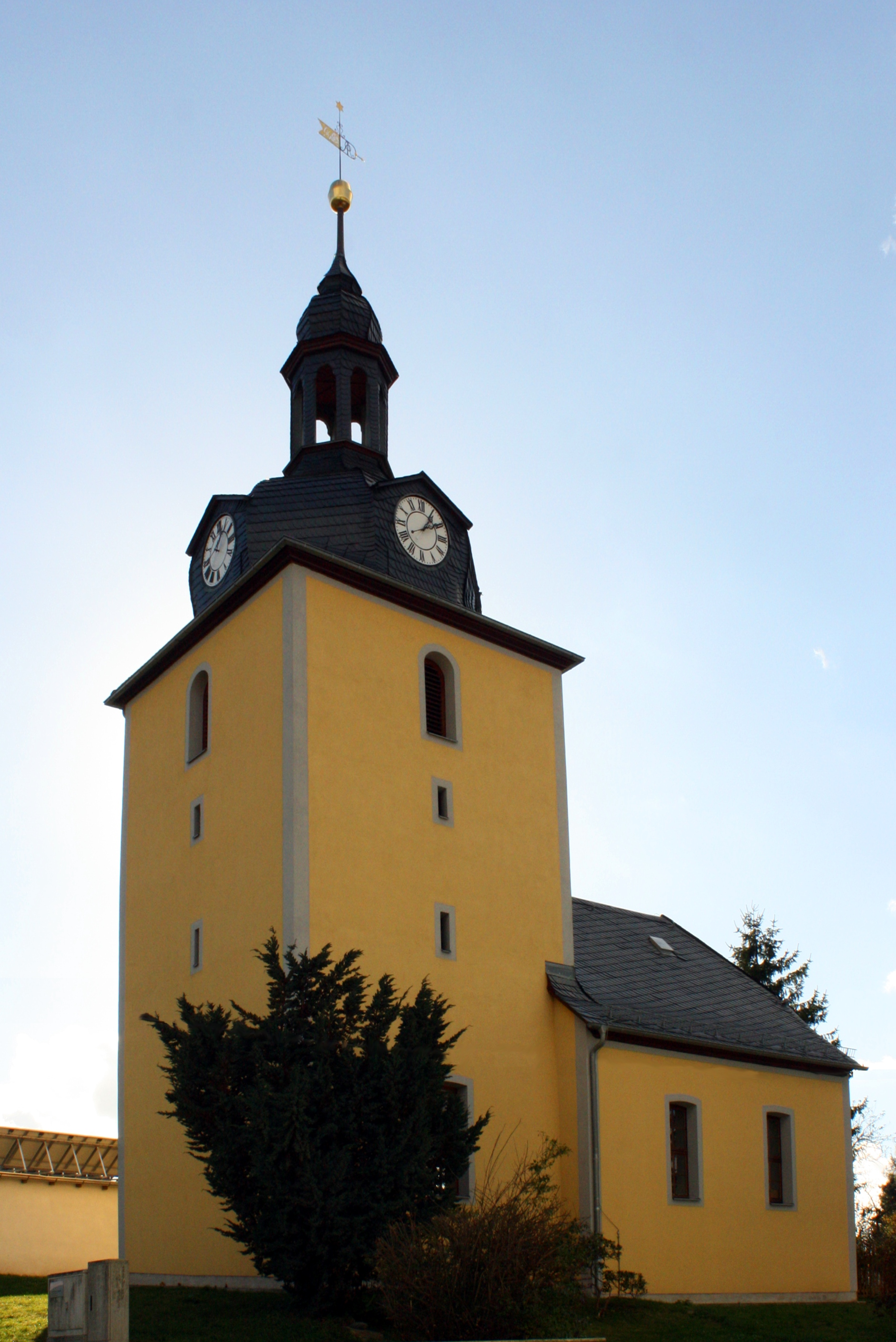 Church in Auma-Krölpa near Greiz/Thuringia